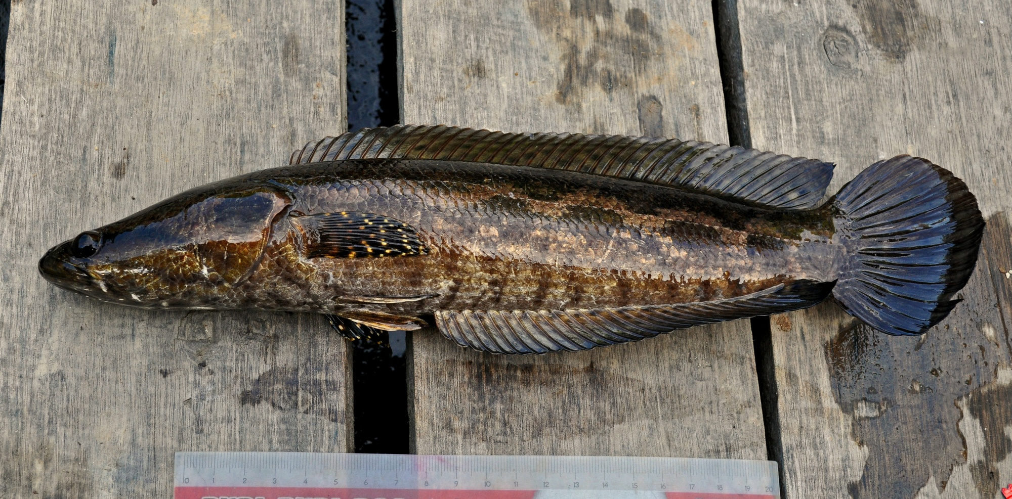 Channa lucius. From Sambas, West Kalimantan, Indonesia.